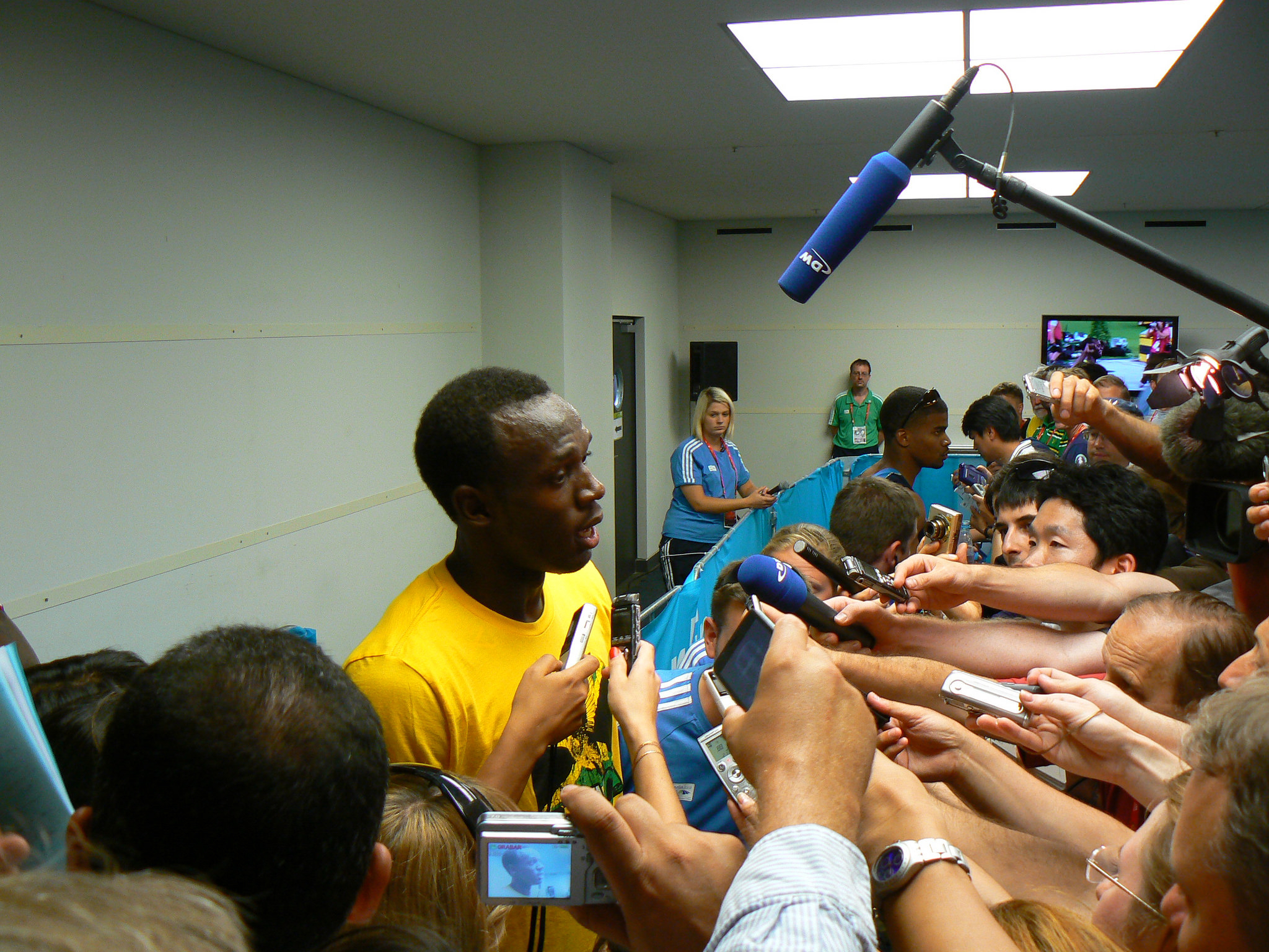 Usain Bolt talks with written press in the Mixed Zone at the 2009 IAAF World Championships